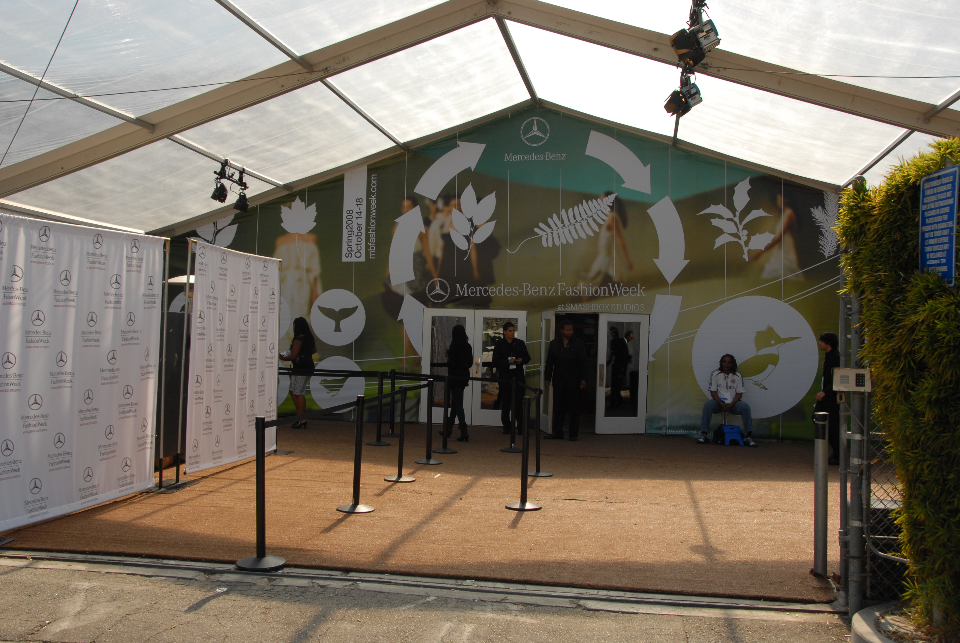 Smashbox Studios set-up and tented for Los Angeles Fashion Week 10/18/2007 - Photo by Glenn Francis of